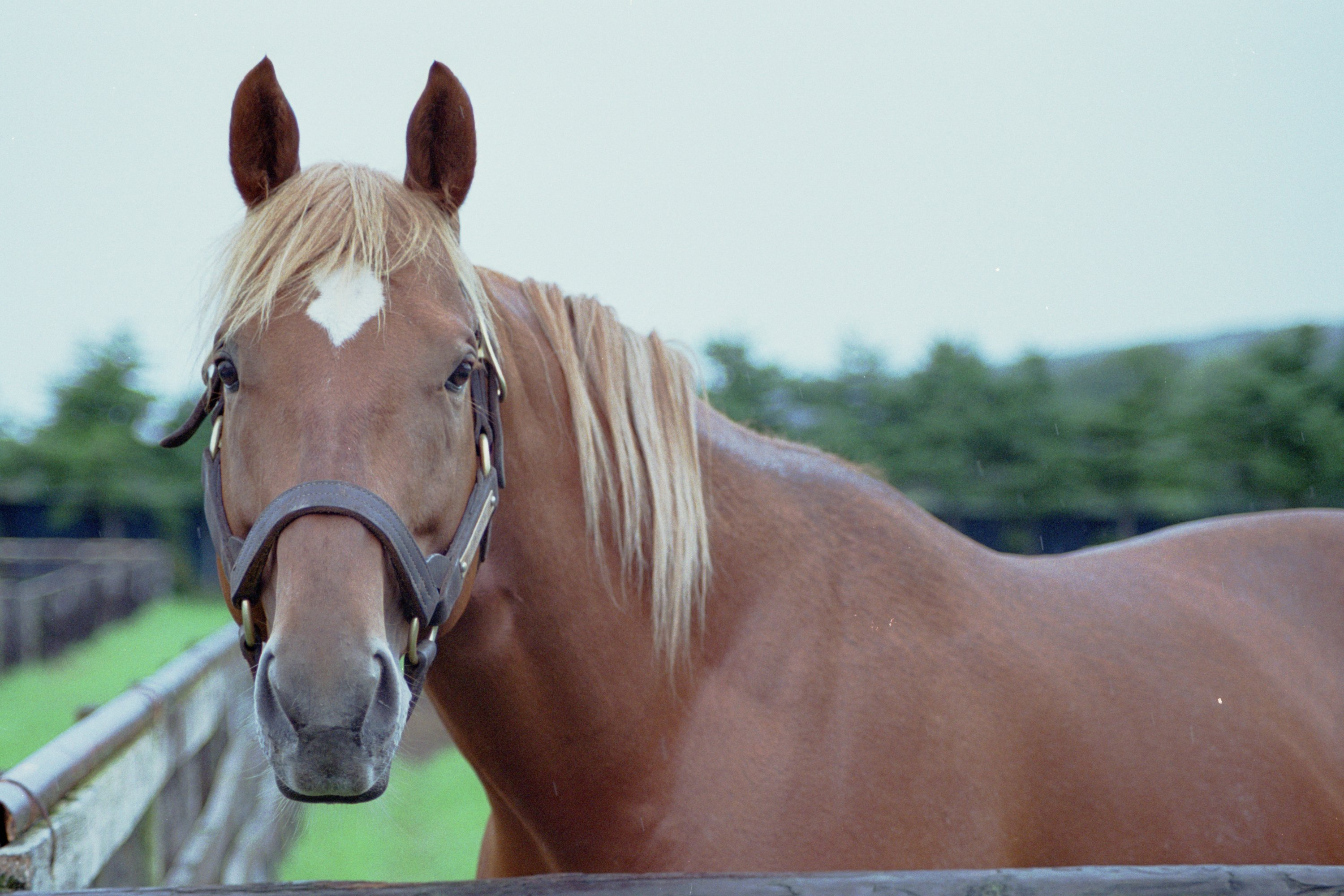 Taiki Shuttle at Arrow Stud,Shin-Hidaka(Shizunai) Hokkaido Japan